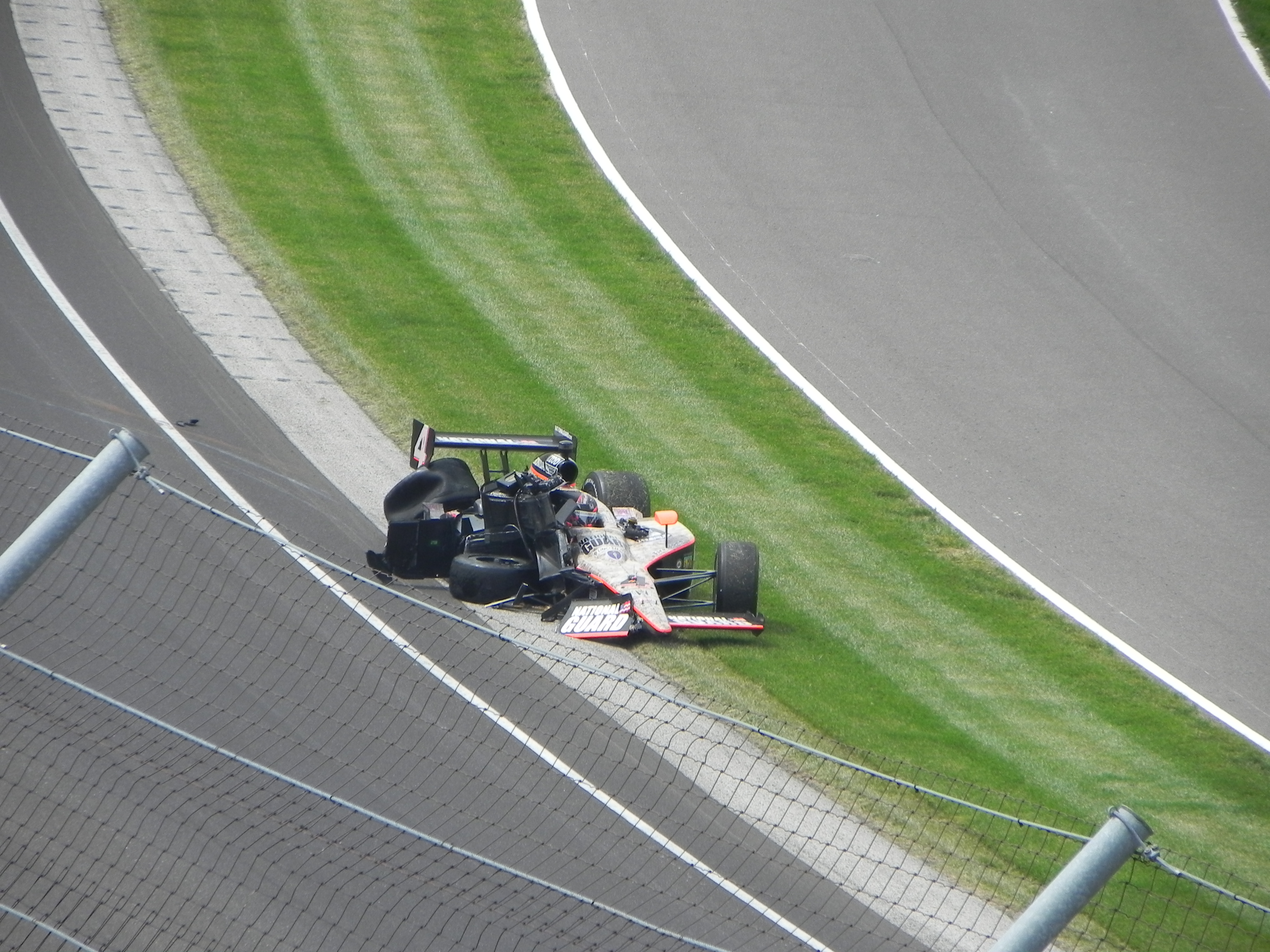 A photograph of J. R. Hildebrand after crashing on the final lap of the 2011 Indianapolis 500.